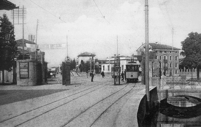 Porta Gemona 1900, Udine